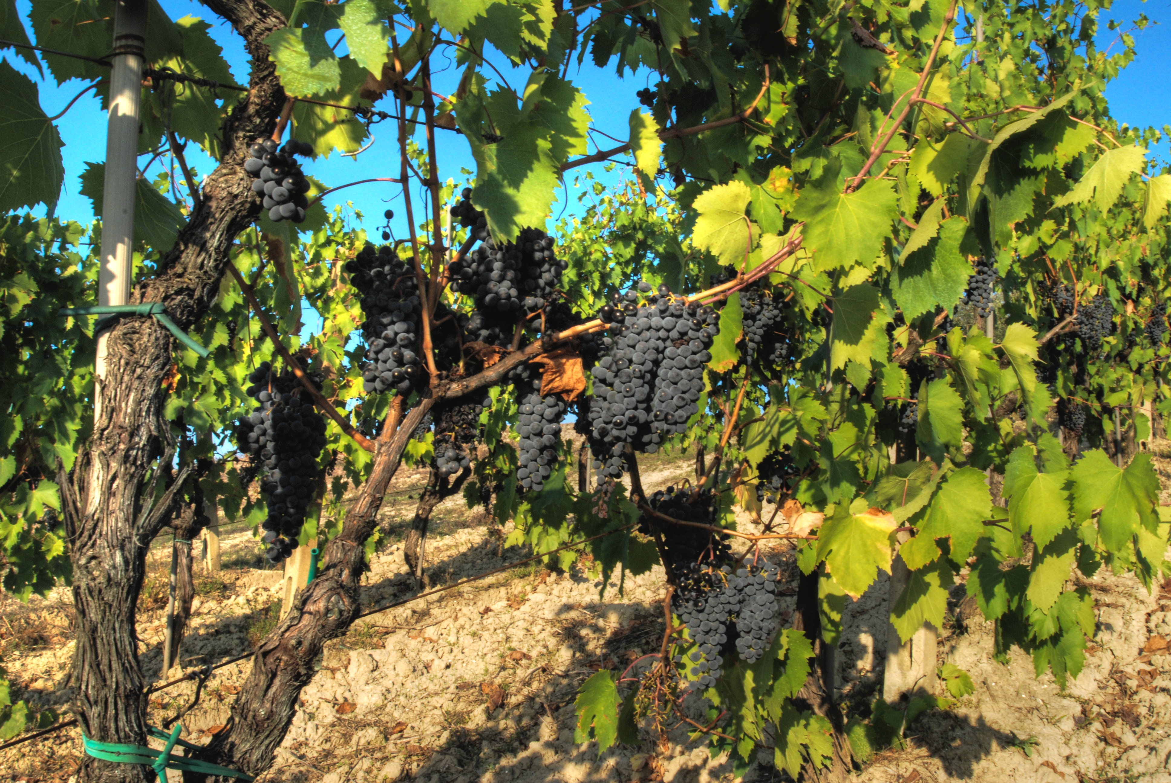 Sangiovese grapes on the vine growing in Certaldo, Tuscany